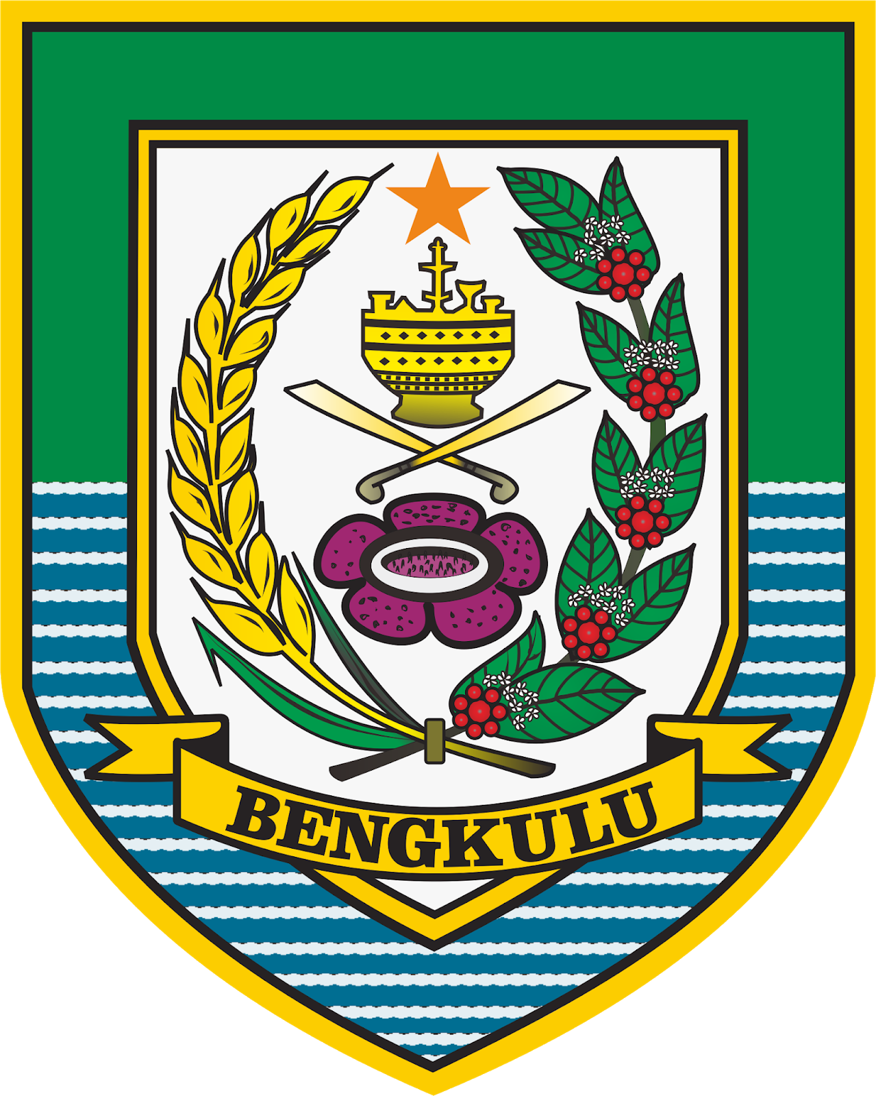 Coat of Arms of Indonesian province of Bengkulu.